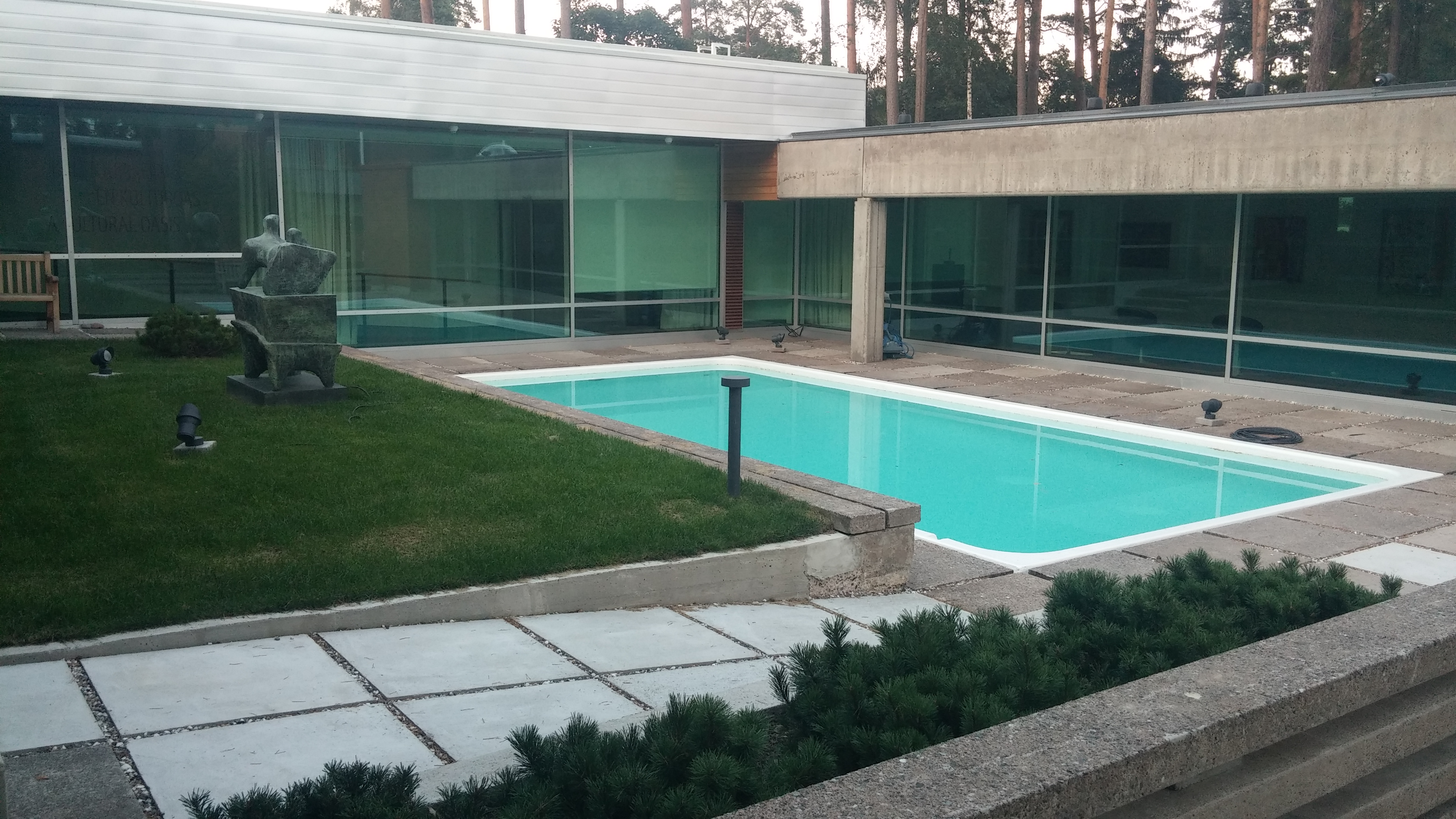 Didrichsenin taidemuseo is an art museum in Helsinki, Finland.